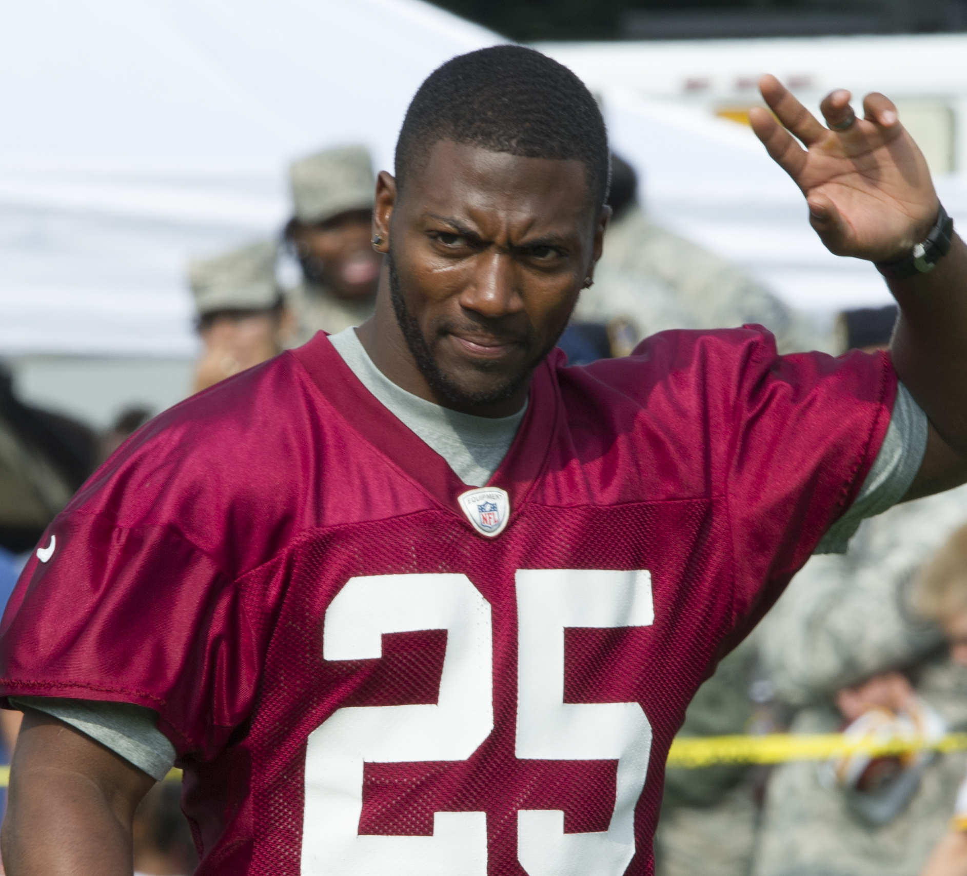 Washington Redskins safety Ryan Clark, waves to spectators during a walk-through practice at Joint Base Andrews August 22, 2014. The team conducted the practice and signed autographs for military members and their families here as part of their Redskins Salute effort.